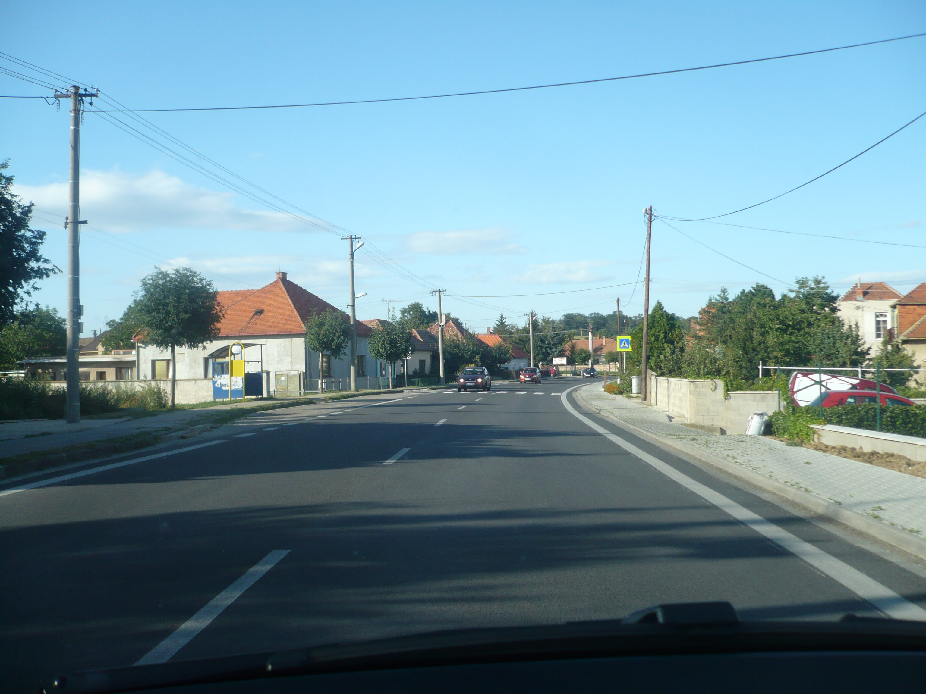 Krušovce from the main road Pohľad na Krušovce z hlavnej cesty